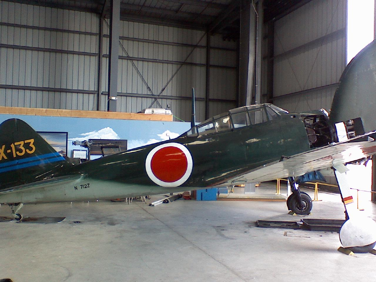 Mitsubishi A6M Zero (A6M6c Type 0 Model 53c), Camarillo Airport Museum, Camarillo, California, USA. This is one of only three flying Zeros in the world. Bruce Fenstermacher found this aircraft in New Guinea in 1991 at the abandoned Babo airfield. According to Bruce, "The aircraft was abandoned on barrels for work on the landing gear and engine. Its engine was in the progress of being changed or remounted because it was unbolted from the engine mounts and stand were under the engine itself." This airplane was used in the filming of the movie Pearl Harbor.